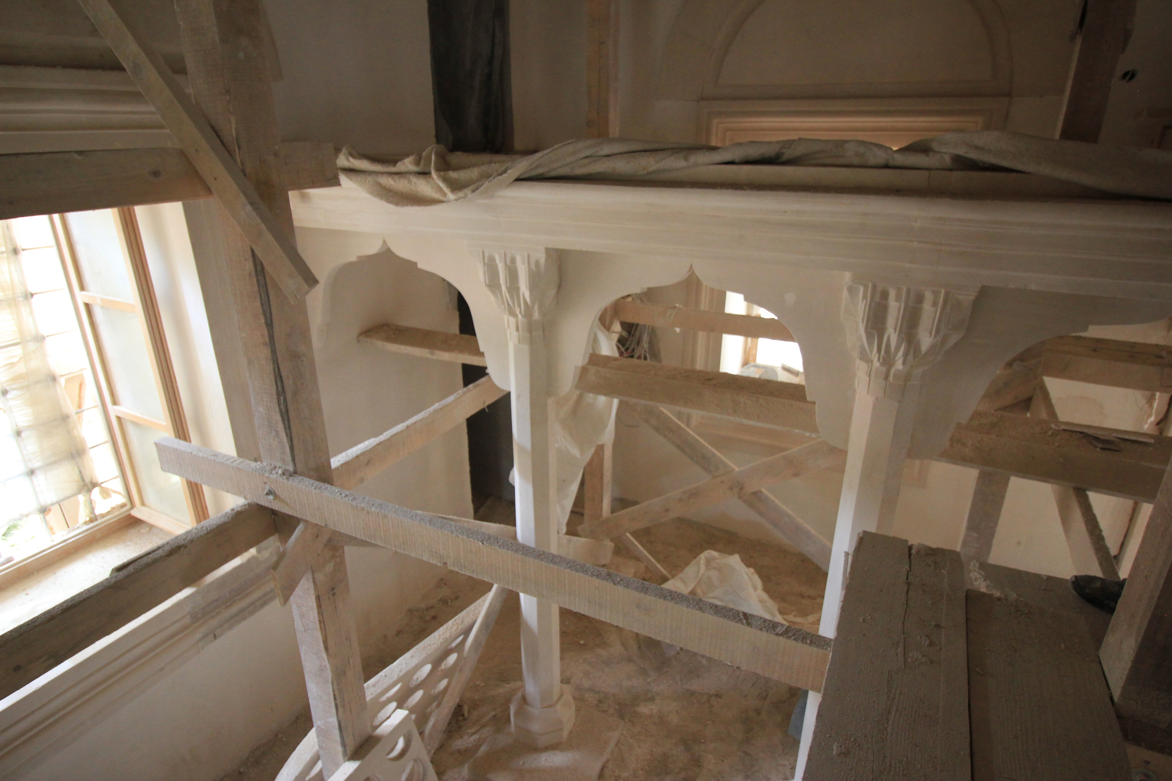 Aladža mosque in Foča during reconstruction in 2018.